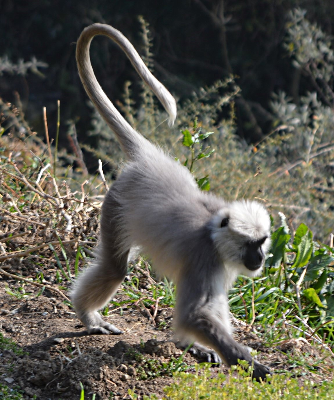 A Hanuman langur (Semnopithecus sp.) walking in a characteristic tail carriage posture.